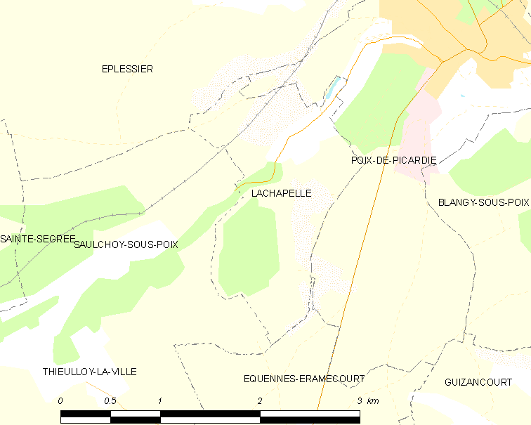 Map of French municipality Lachapelle